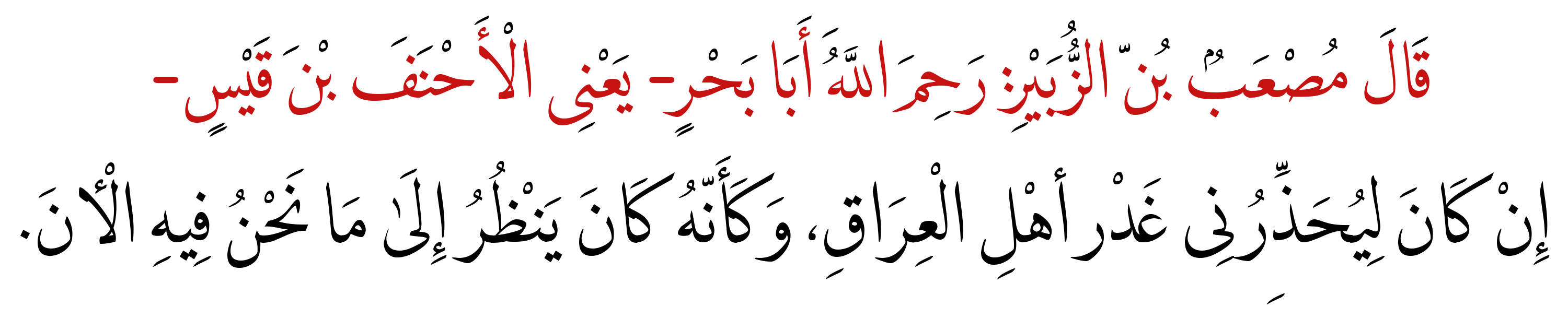 مصعب بن الزبير بن العوام بن خويلد بن أسد بن عبد العزى بن قصي بن كلاب ، أبو عبد الله القرشي - ويقال له : أبو عيسى أيضا - الأسدي .